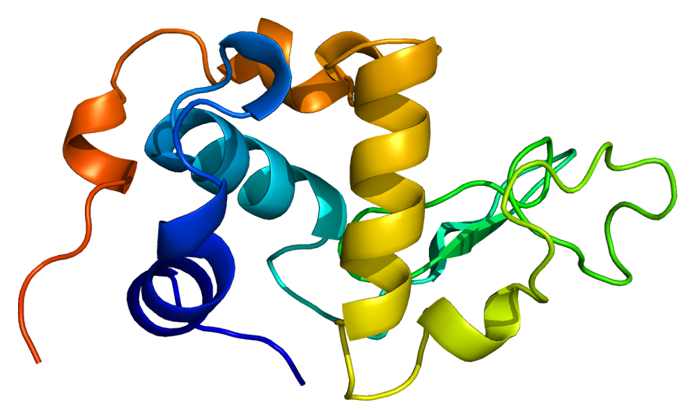 Structure of the LALBA protein. Based on PyMOL rendering of PDB 1a4v.